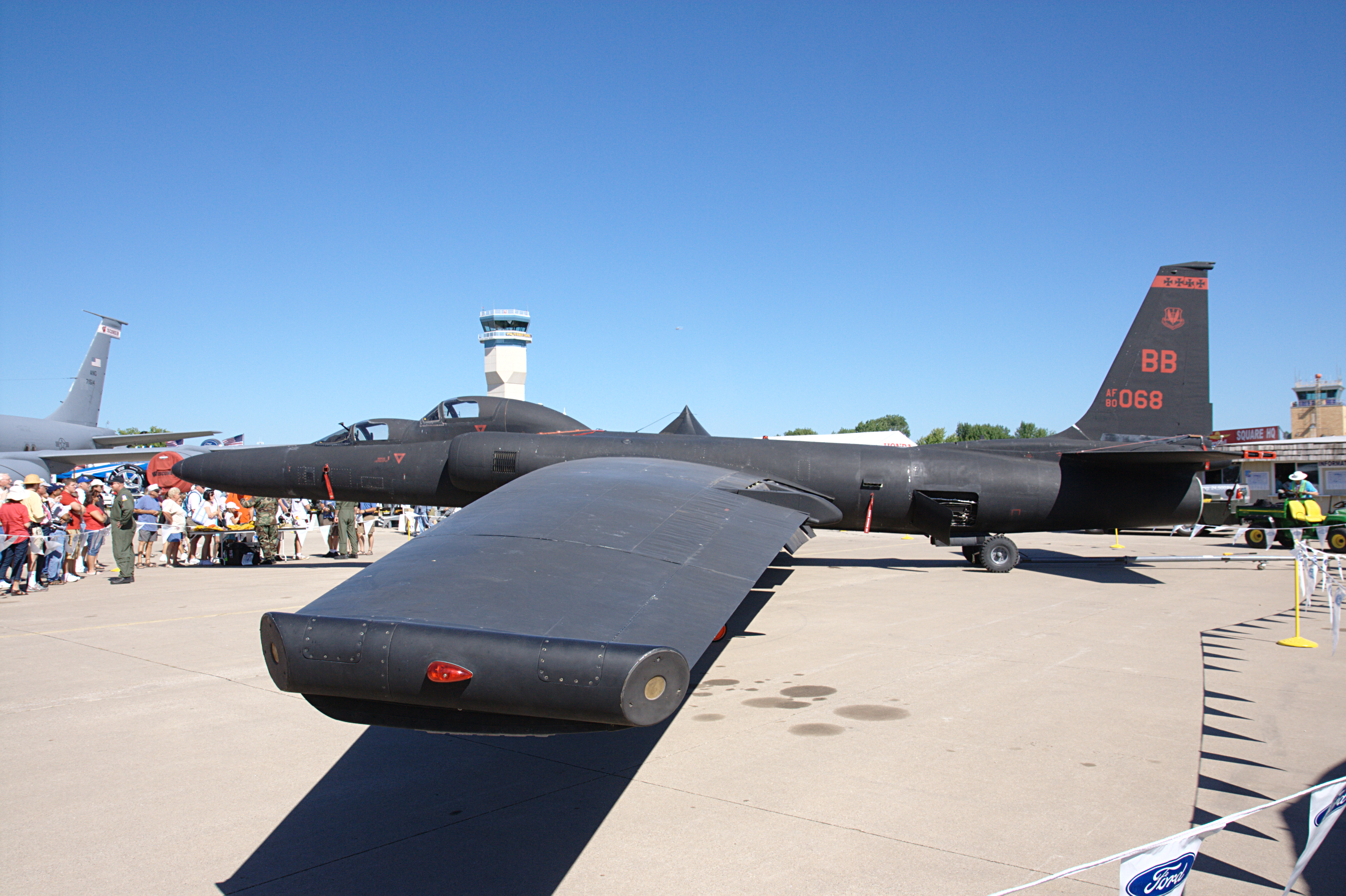 Lockheed U-2, 2008 airshow at Wittman Regional Airport, Wisconsin, USA